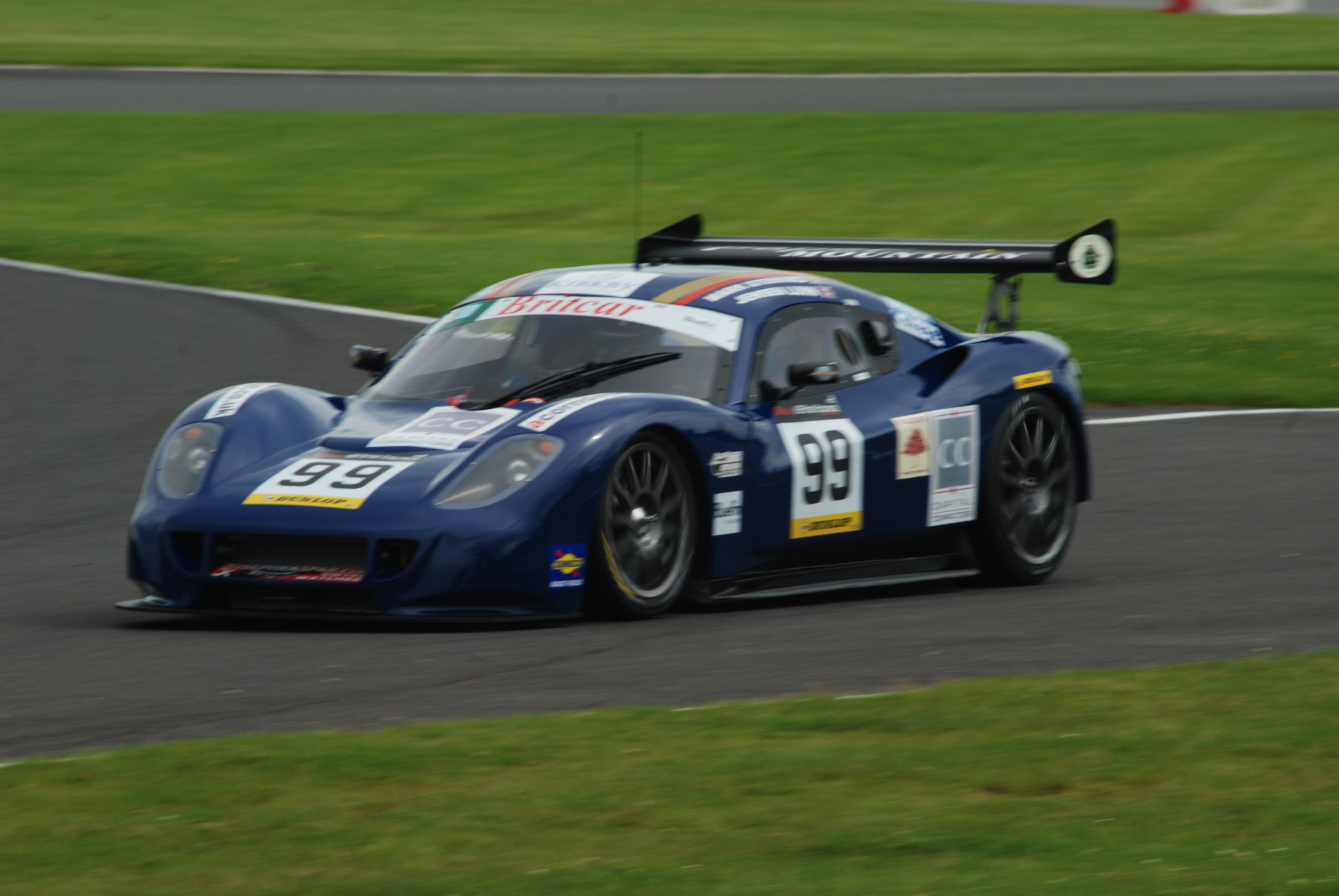 Oultan Park BRITCAR